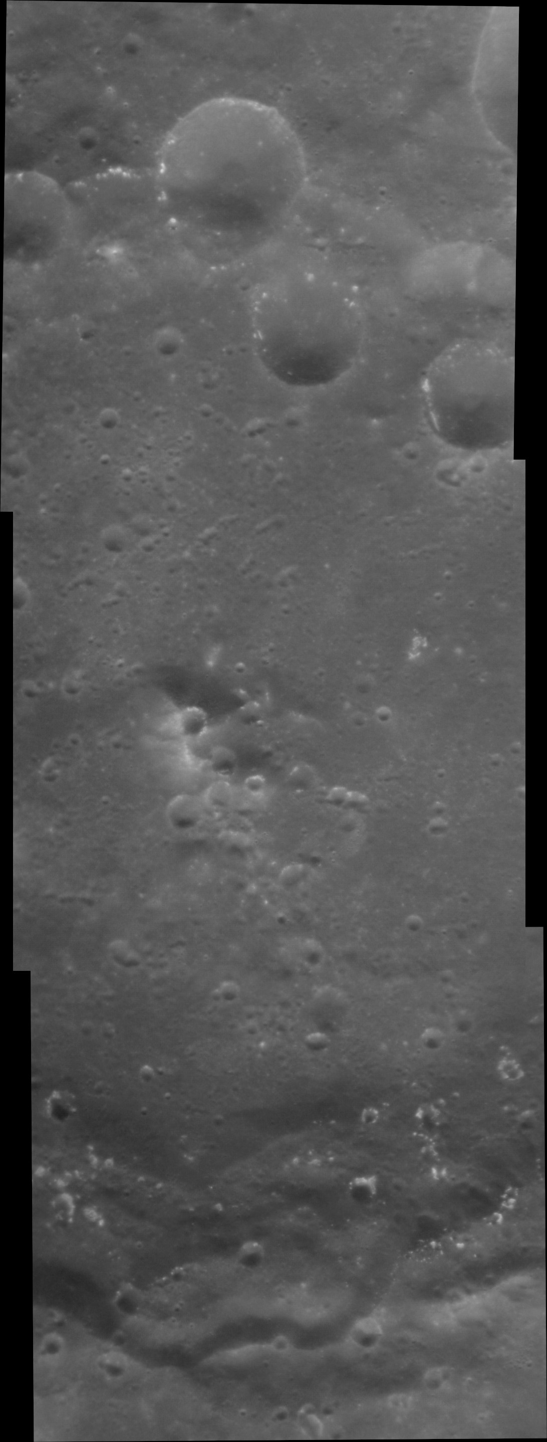 Central Poe crater on Mercury. Mosaic of MESSENGER Narrow Angle Camera images (EN0218161456M, EN0218161460M, EN0218161464M). North is up. Stats for the center image are below: Emission Angle: 0.8 Incidence Angle: 43.8 Latitude: 43.8 Longitude: 159.3 Phase Angle: 44.0